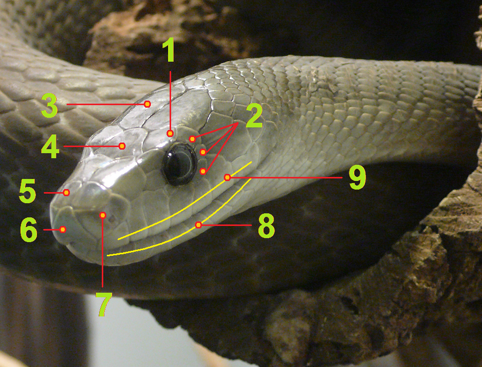 Black mamba (Dendroaspis polylepis)